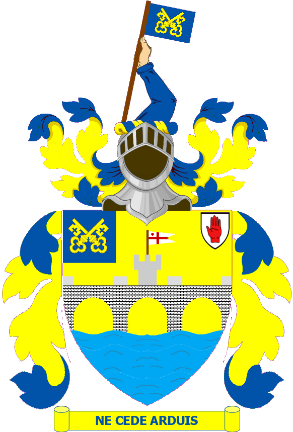 The armorial achievement of the Troubridge baronets of Plymouth